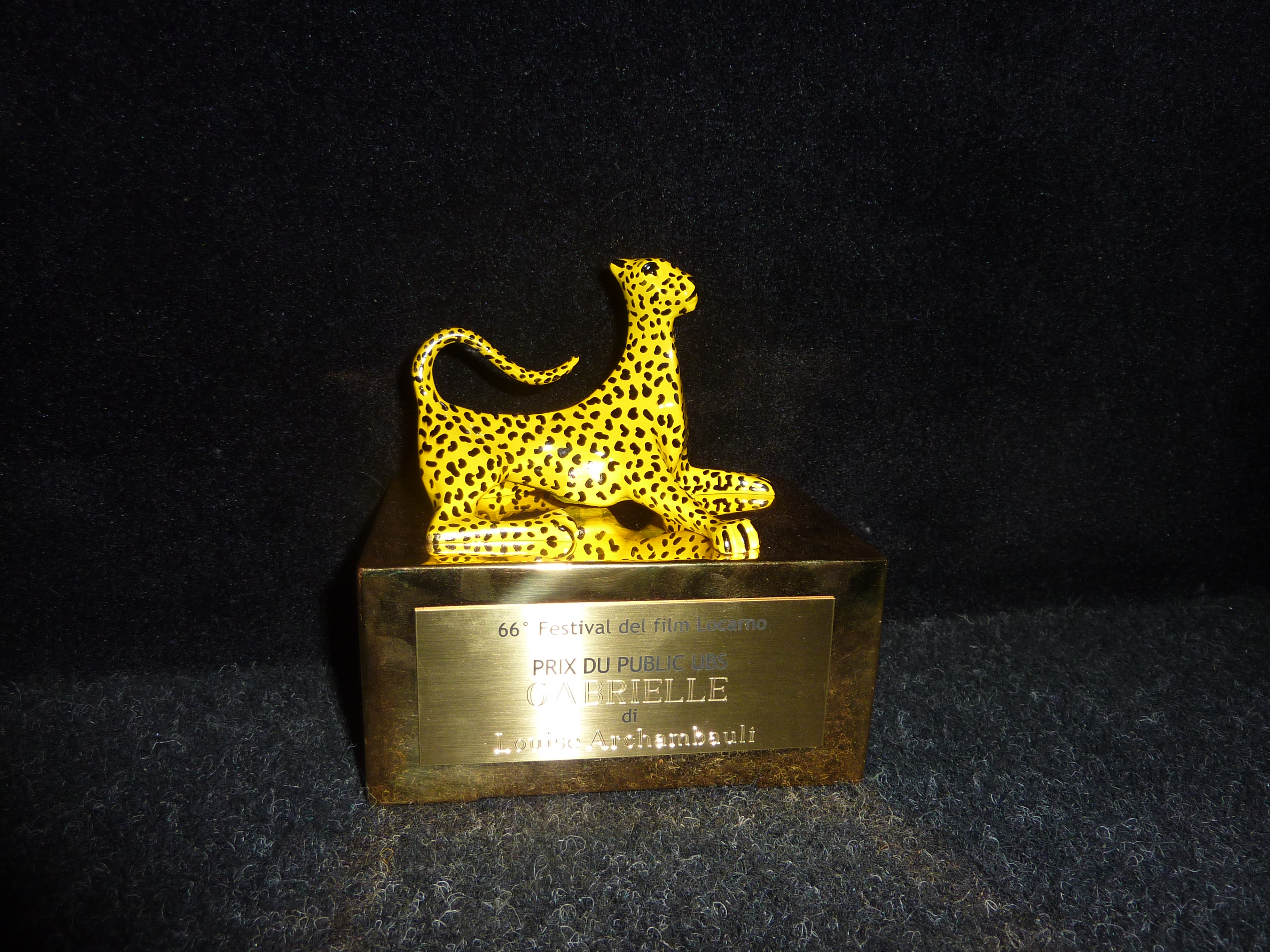 Prix du jury 2013 - Festival International du Film de Locarno - Gabrielle